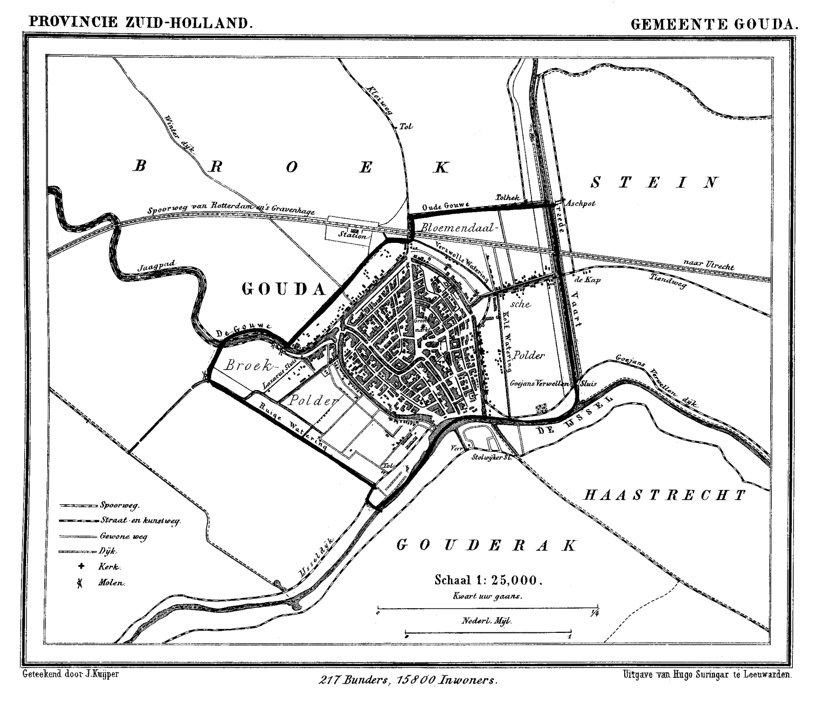 Historic map of Gouda, the Netherlands